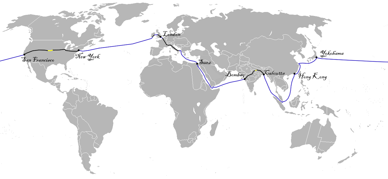 Map of the trip in Around the World in Eighty Days by Jules Verne